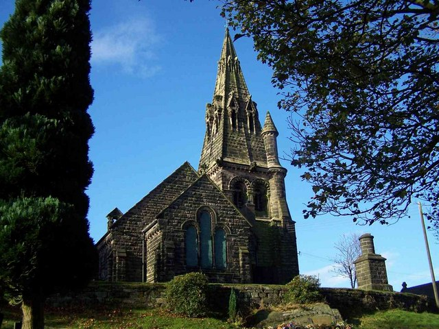 St Anne's parish church, Brown Edge, Staffordshire, seen from the east